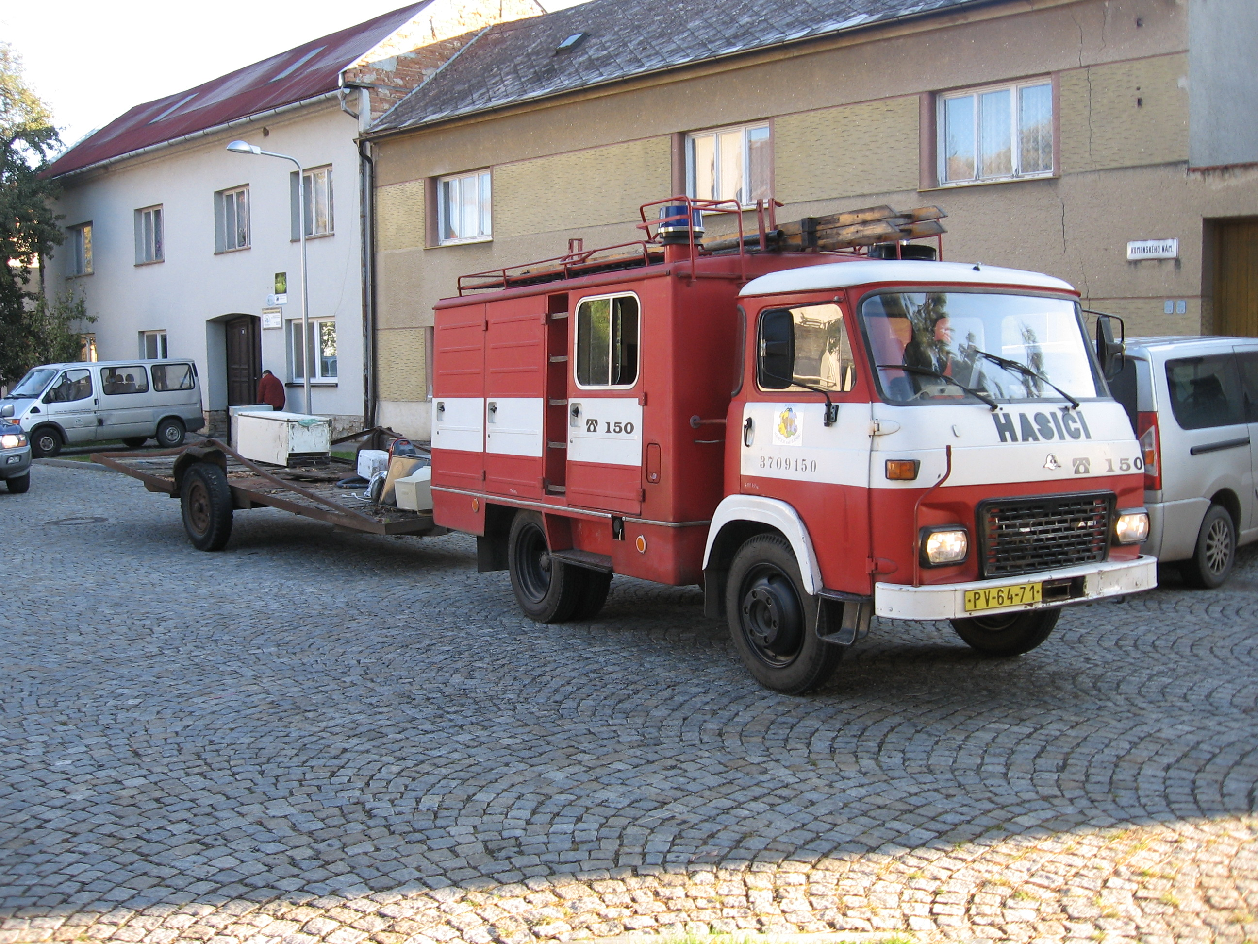 Fire engine based on Avia A30 or A31 truck. The name on the grille says "A21" however this does not apear to be the A21 model as it has double tires on the rear wheels and is longer than the A21 model.